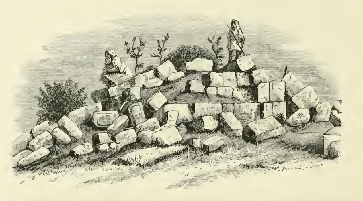 Raba, Jenin